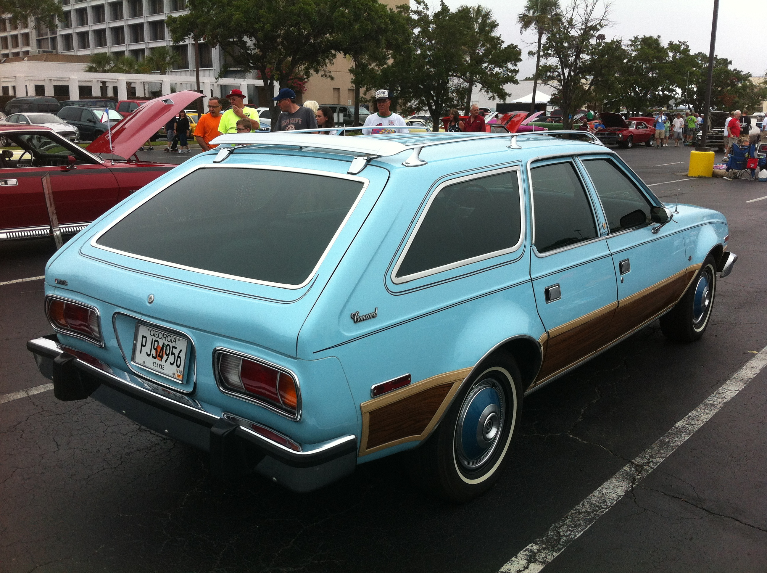 1978 AMC Concord DL station wagon. A compact-sized luxury automobile manufactured by American Motors Corporation (AMC). Finished in "Powder Blue" (paint code - 7D) with standard woodgrain exterior trim and with the standard blue velour upholstery. Photographed at the 2014 American Motors Owners (AMO) convention that was held in North Charleston, North Carolina, USA.